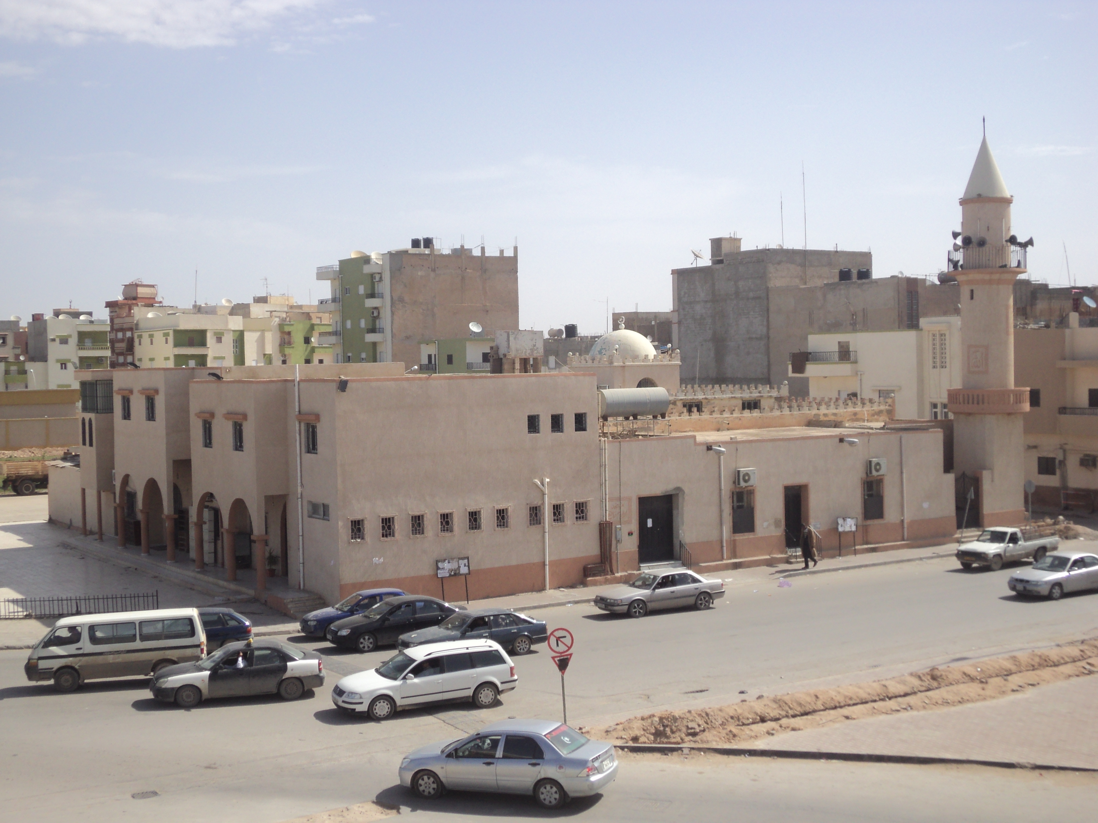 Al Imam Nafi mosque, Benghazi.